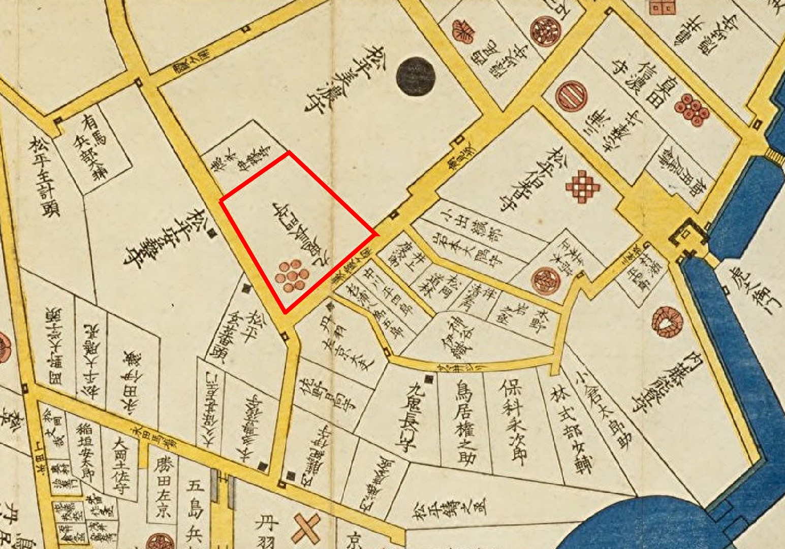 REsidence of Sanda-Kuki clan at Edo